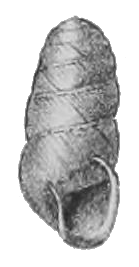 Drawing of apertural view of a shell of Edentulina moreleti